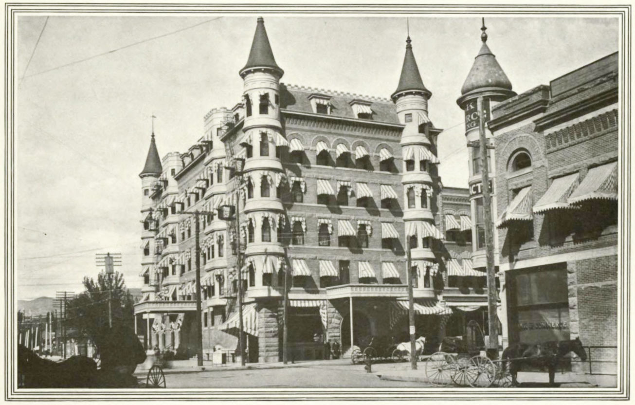 Boise, Idaho: At right is the W. E. Pierce Building, demolished in 1975. The building's turret is a feature of C. W. Moore Park. At left is the Idanha Hotel.